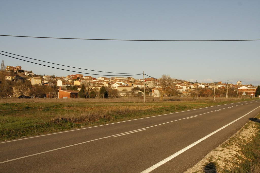 View of Quintanilla del Agua, 2010